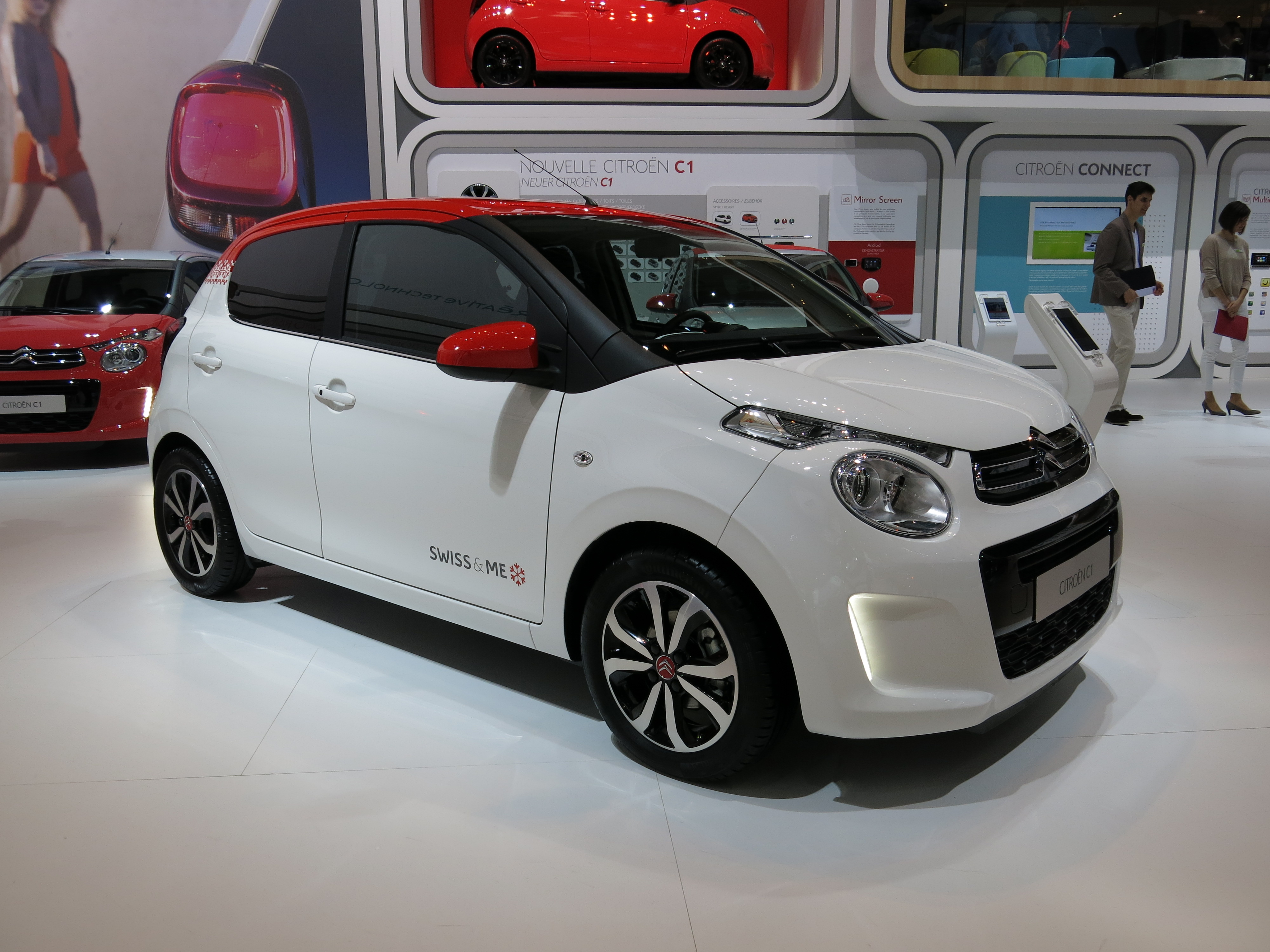 Geneva Motor Show 2015 (photo taken on the first press day)